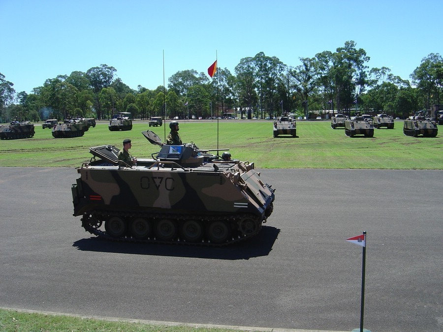 Lancer Band bugler Musician John Byrne in the back of the CO's APC